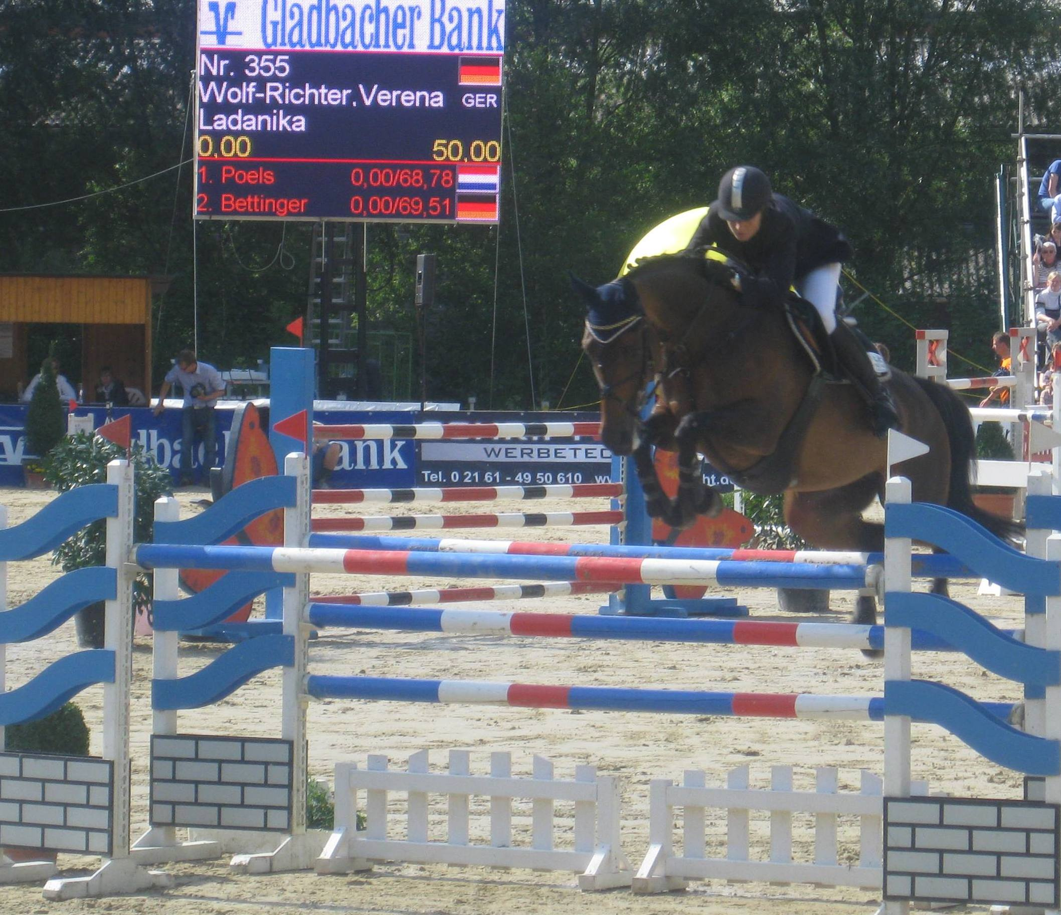 Schlosspark horse show Wickrath